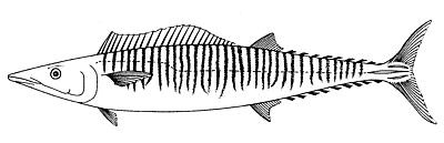 Wahoo (Acanthocybium solandri)